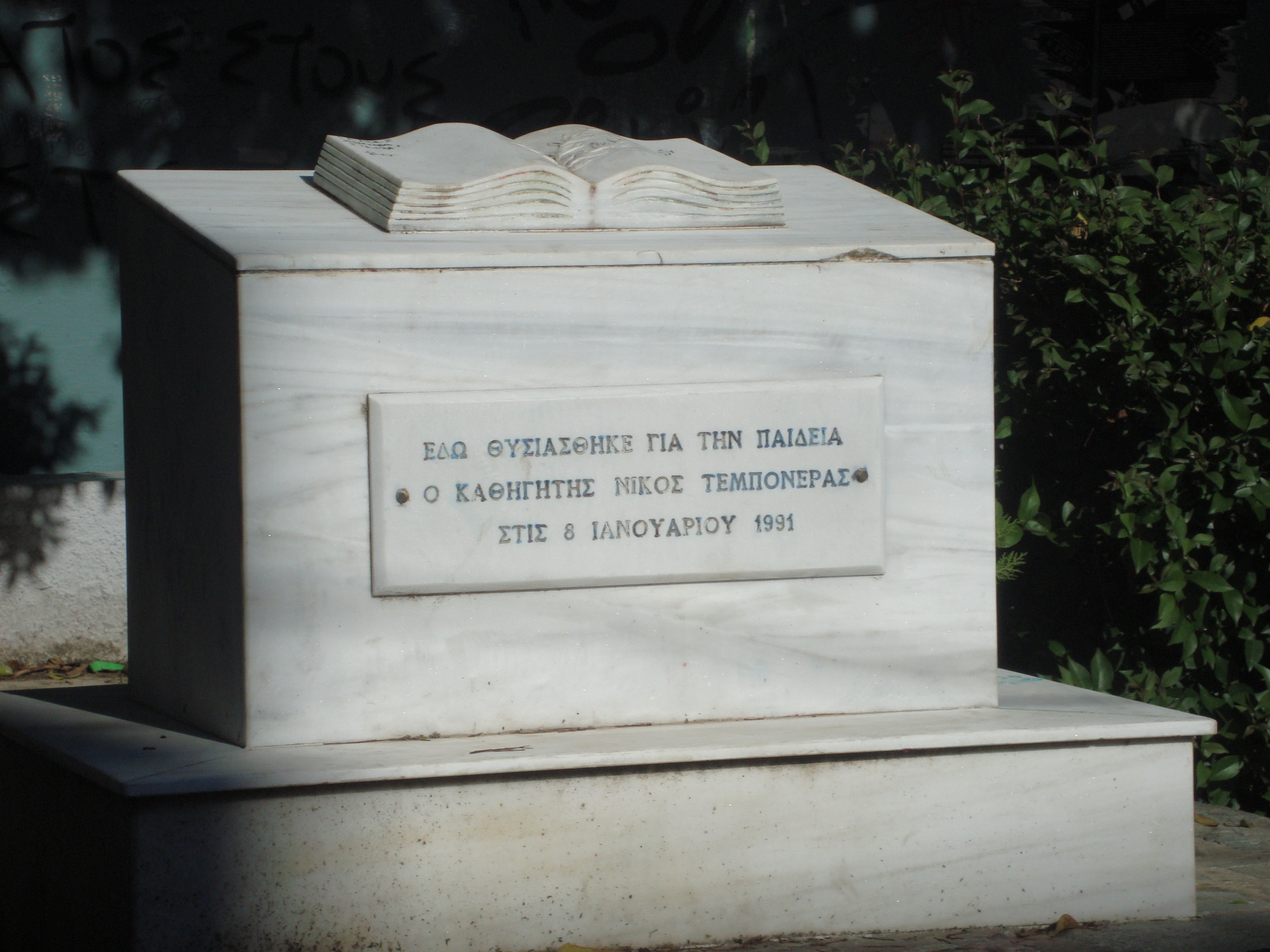 The monument in honor of math professor Nikos Temponeras, outside of the 3rd Lyceum of Patras, where he was murdered during the student protests of 1991. Patra